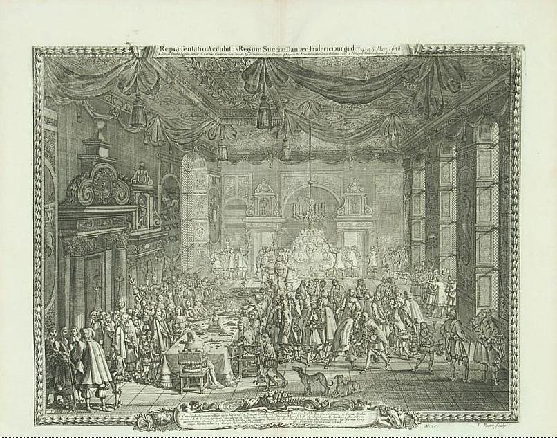 Repræsentatio Accubitus Regum Sueciæ Daniæq: Fridericiburgi d. 3. 4. et 5. Mart. 1658.